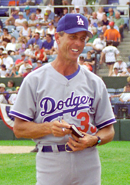 Los Angeles Dodgers pitching coach Glenn Gregson (33)